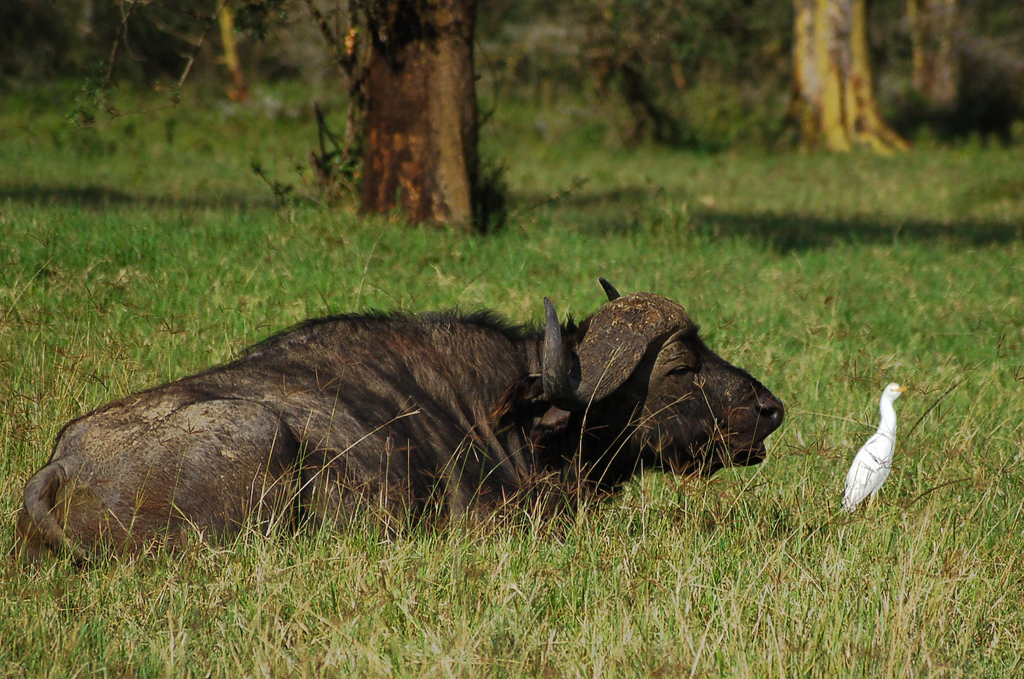 Buffalo (Syncerus caffer) in Lake Nakuru National Park